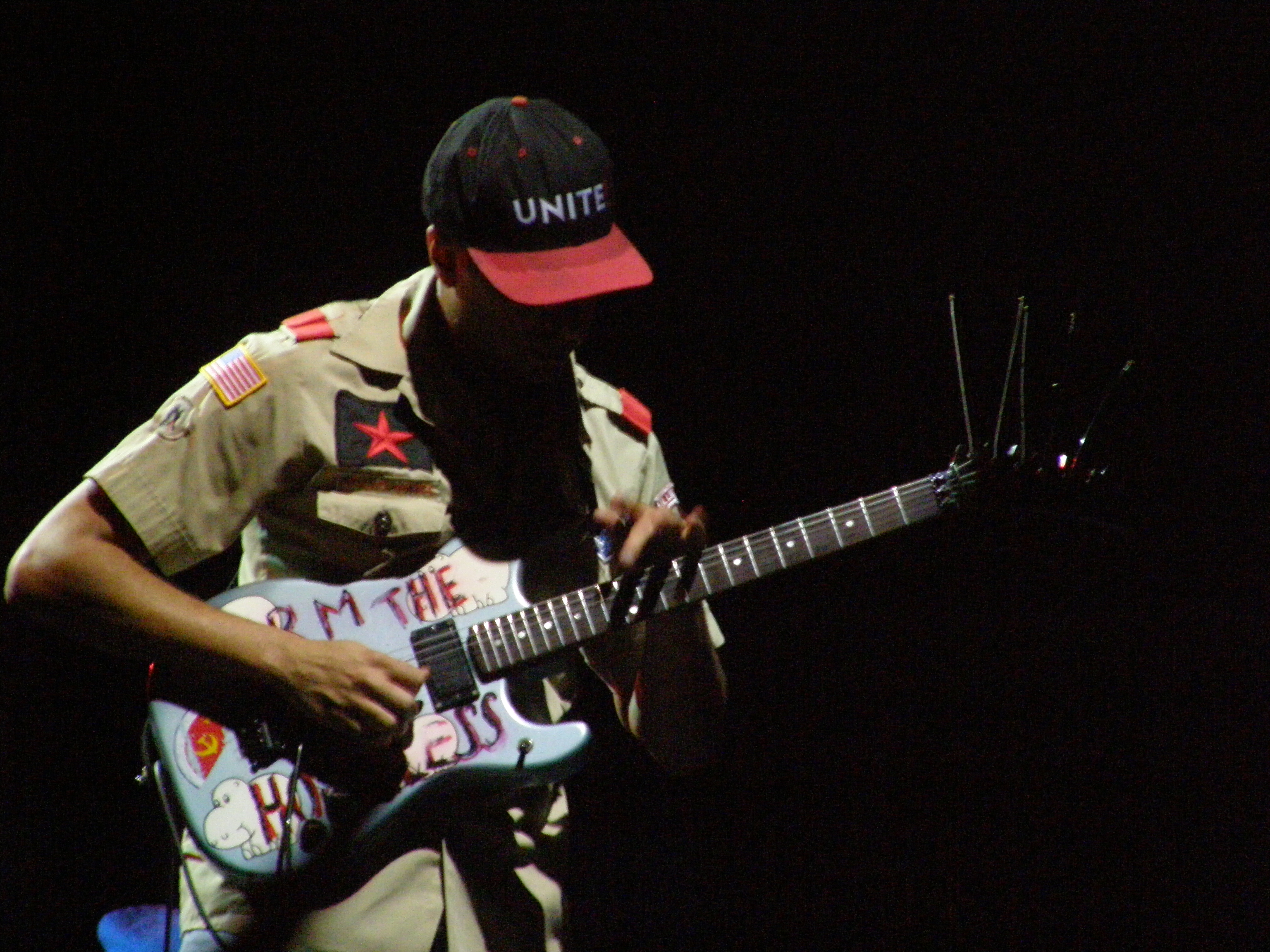 Rage Against The Machine plaing at Vegoose festival, Sam Boyd Stadium, 2007.